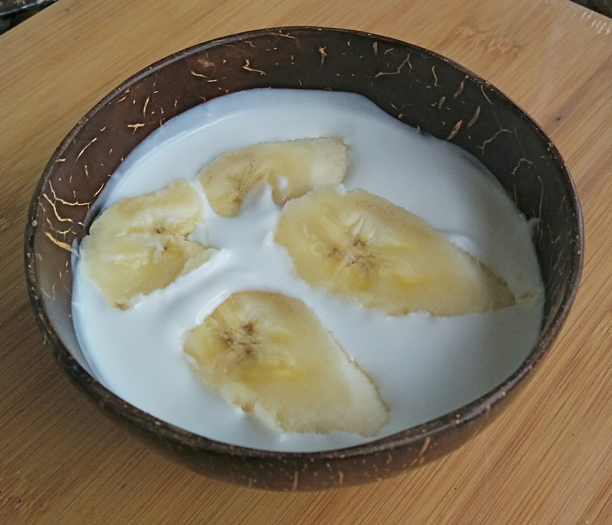 bananas simmered in coconut milk (Thai dessert)